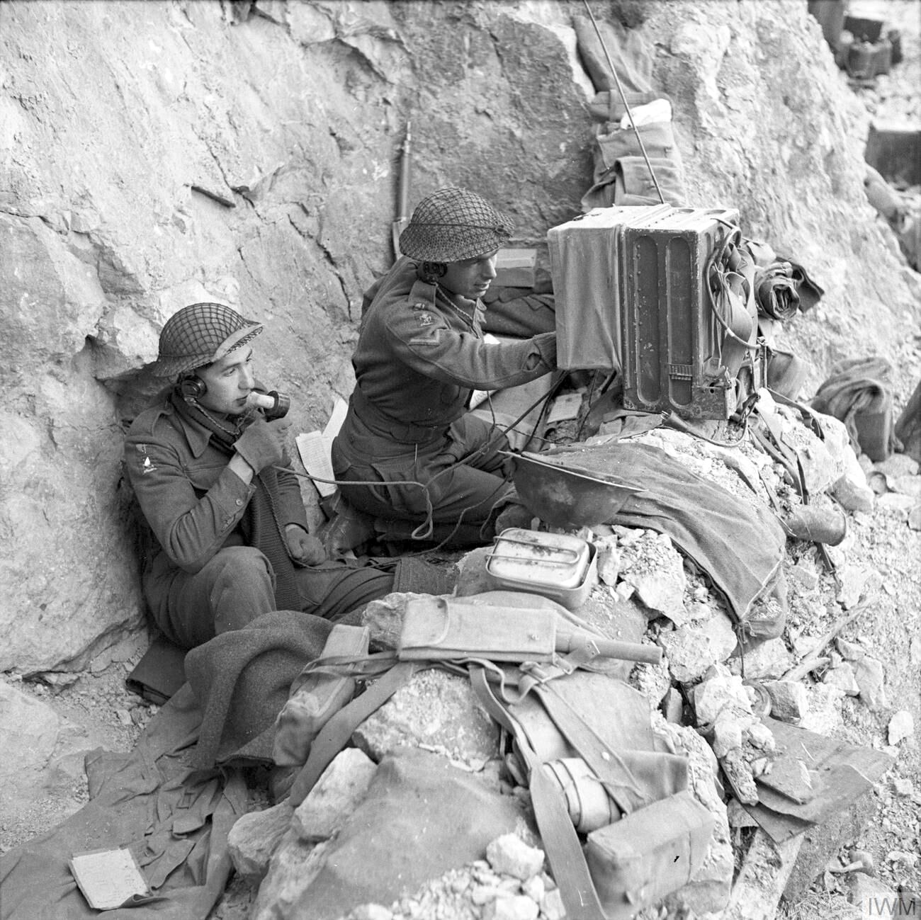 The Battle of Cassino, January-may 1944 Second Phase 15 February - 10 May 1944: Signallers of the 6th Battalion Royal West Kent Regiment using a radio in a dugout on Monastery Hill.